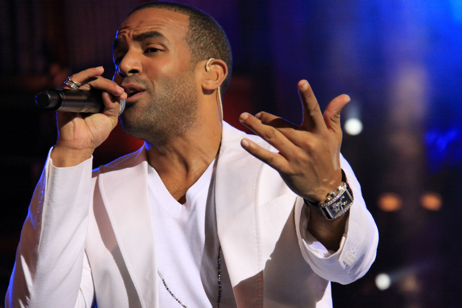 Craig David performing at a concert in Gran Canaria, Spain